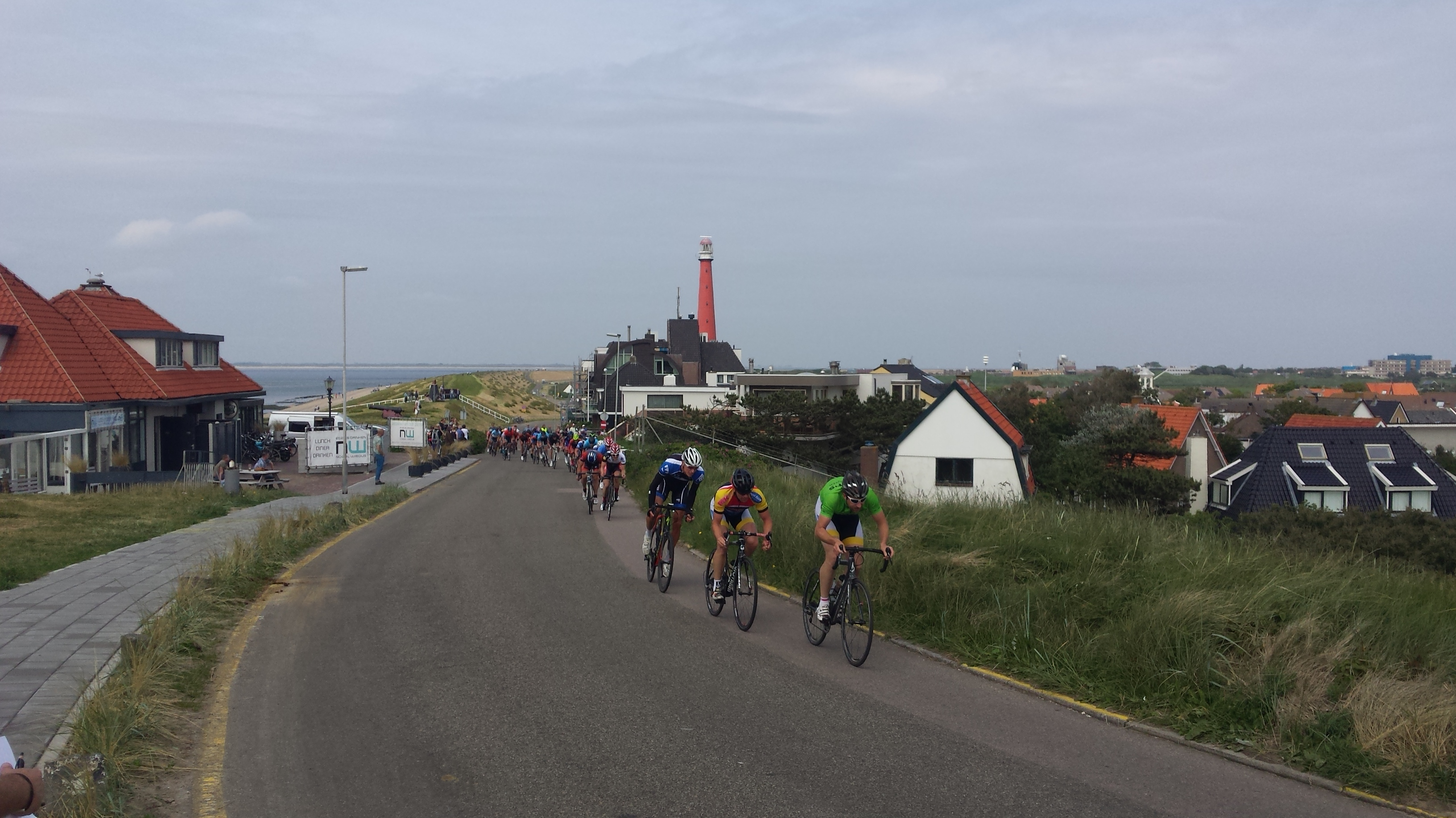 Bicycle race Tour de Lasalle - Den Helder/Huisduinen